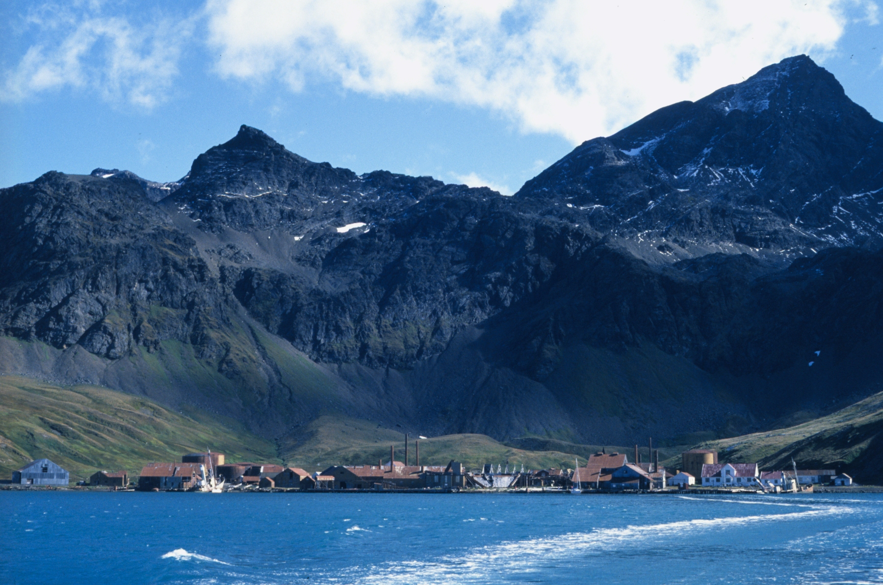 Abandoned whaling station at Grytviken, South Georgia, in the mid-90ies.